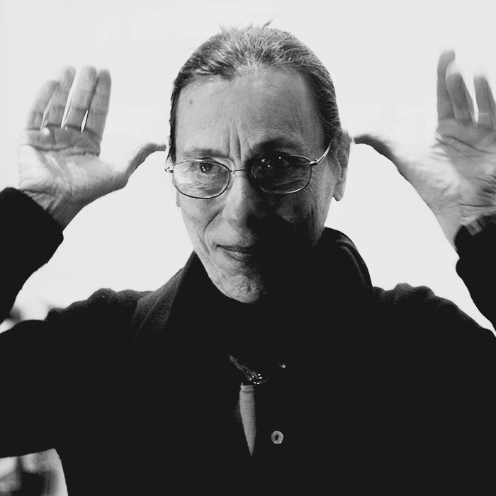 What is dance? "Spontaneity"